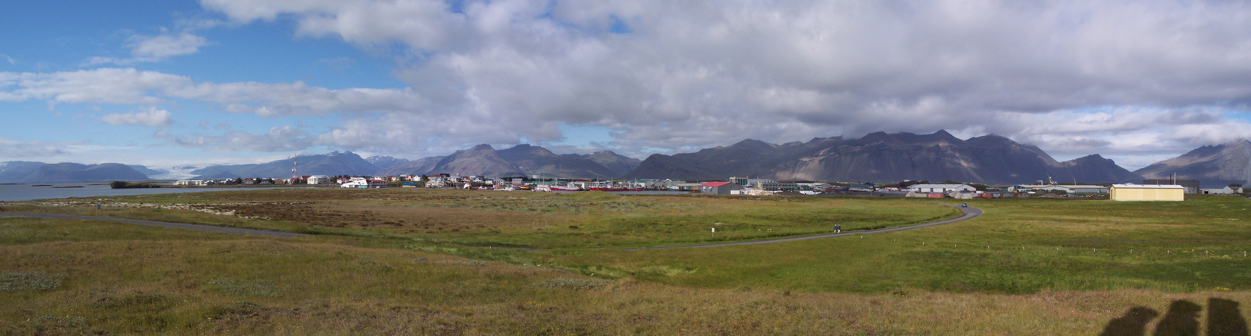 Panorama of Höfn í Hornafirði, Iceland.